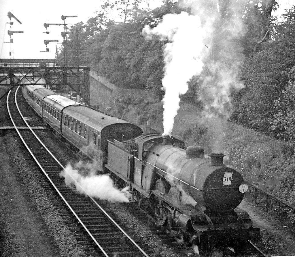 Air Display Special leaving Farnborough for Waterloo. View westward from the A325 bridge, towards Farnborough Station; ex-London & South Western main line, London - Basingstoke - Southampton - Bournemouth/Salisbury - Exeter etc. The locomotive is an ex-London, Brighton & South Coast H2 Atlantic (4-4-2), No. 32421 'South Foreland', with fairly modern SR stock - not as old and moribund as many of the locomotives and stock that had to be mobilized to take the great crowds to/from London for this first Farnborough Air Show after the war. The latest jet aircraft the RAF displayed were in remarkable contrast.